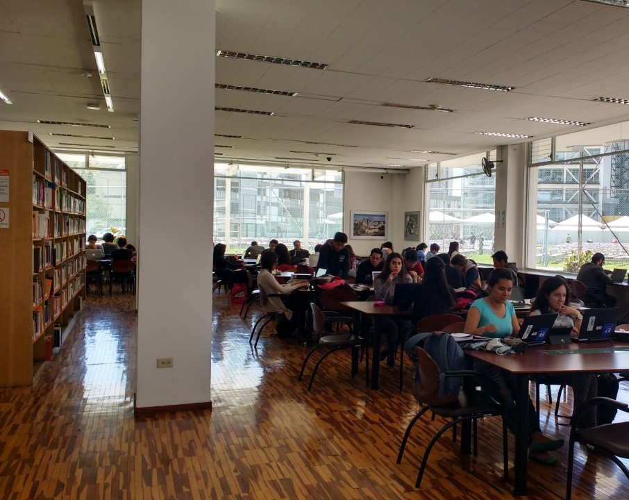 This image was taken in Pontifical Catholic University of Ecuador and it represents a collective society.Students belong to a group to do their activities. By the way is a long term pragmatic because students are planning their future in along term by studying.